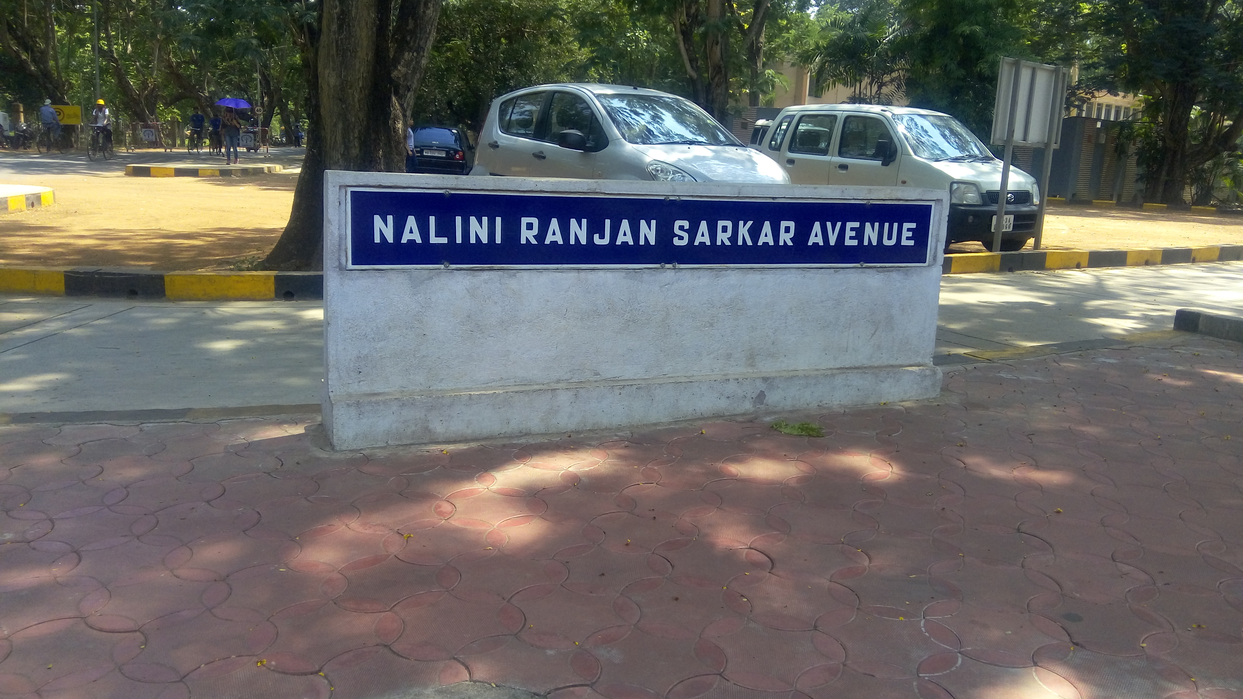 The Nalini Ranjan Sarkar Avenue at IIT Kharagpur at the juncture of the Mother Teresa Hall, The technology Tikka canteen and the IITKGP main road.